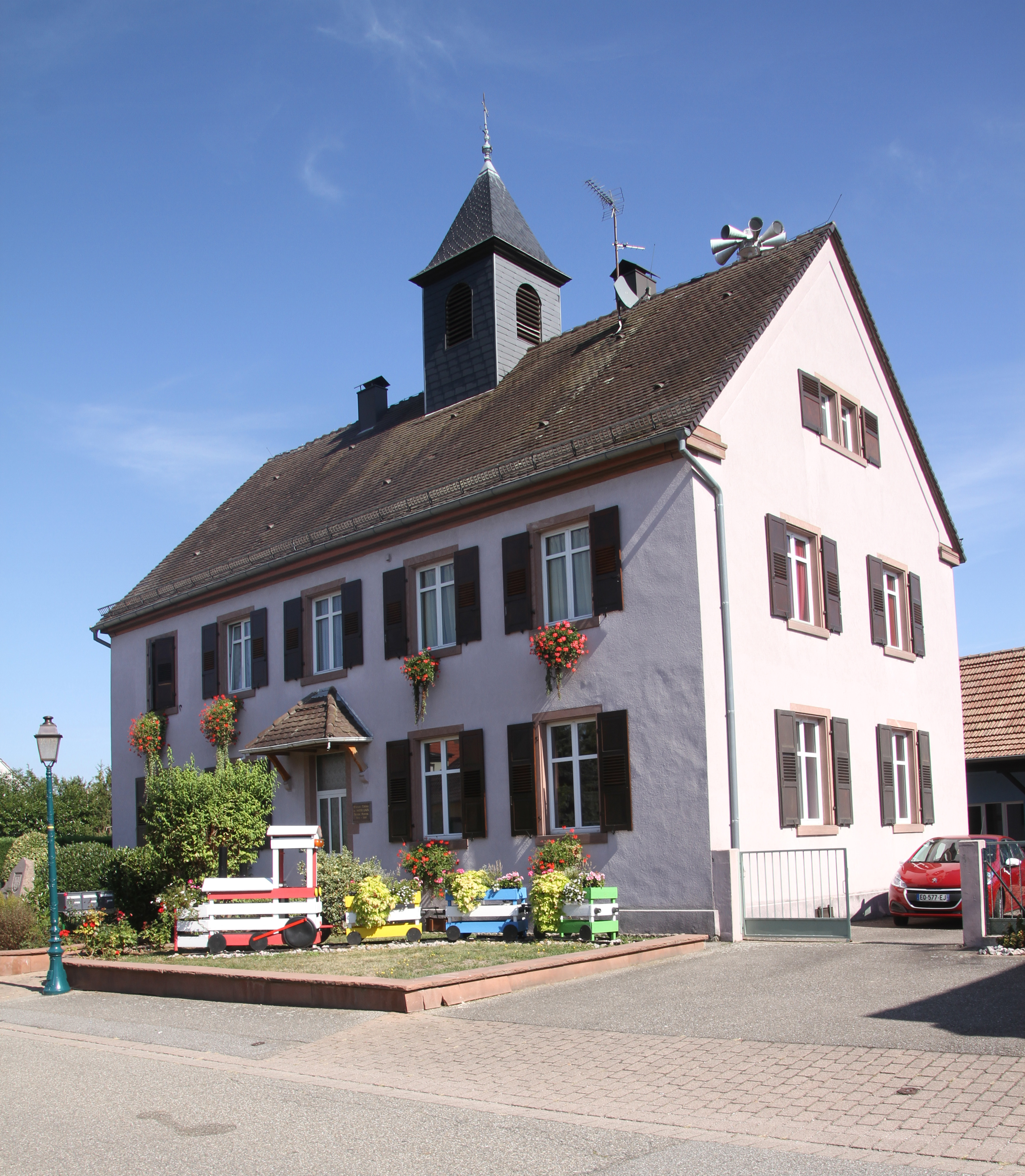 Town hall of Auenheim.